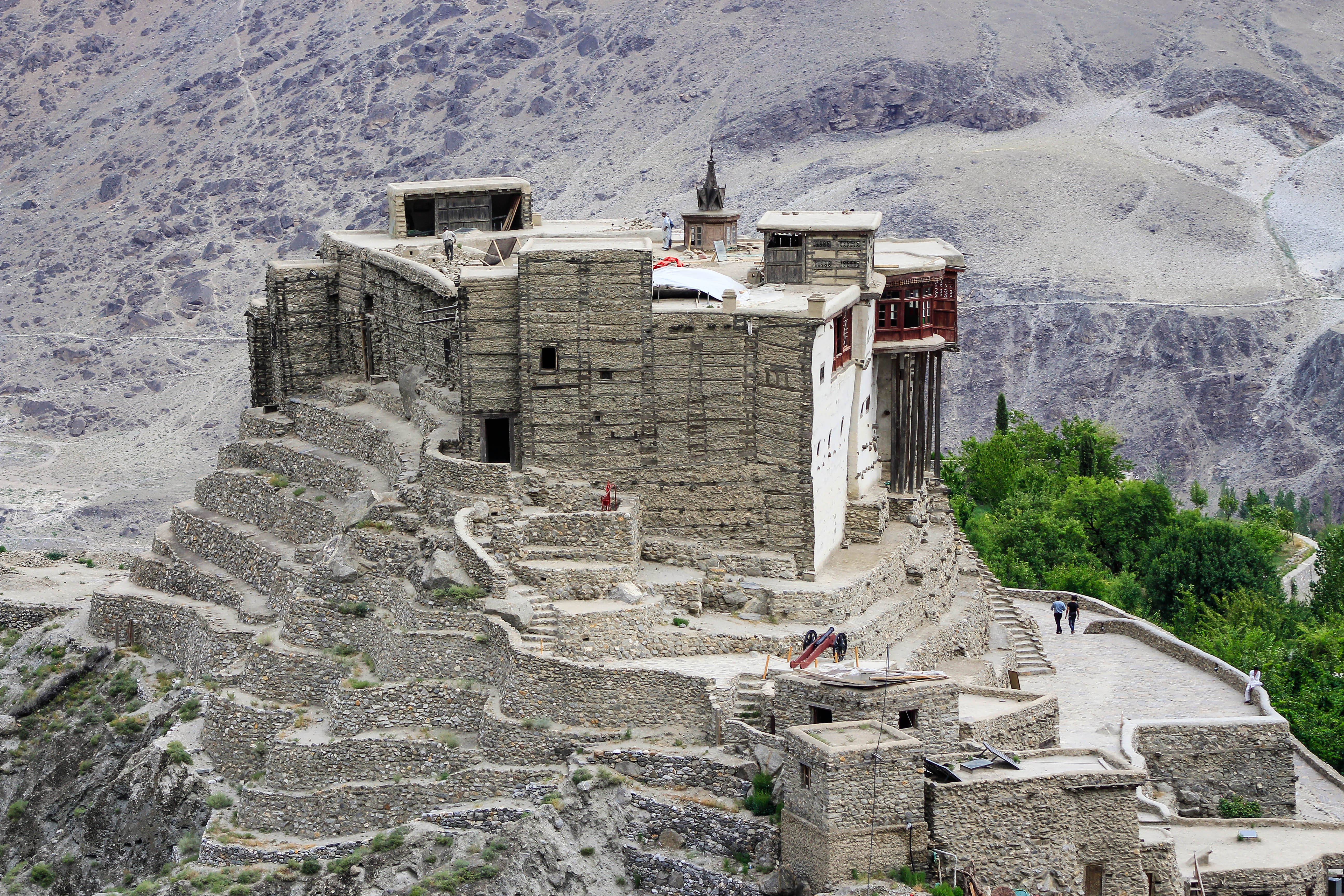 Baltit Fort is a more than 700 years old historical building located in the Heart of Hunza Valley, Gilgit-Baltistan This is a photo of a monument in Pakistan identified as the GB-15